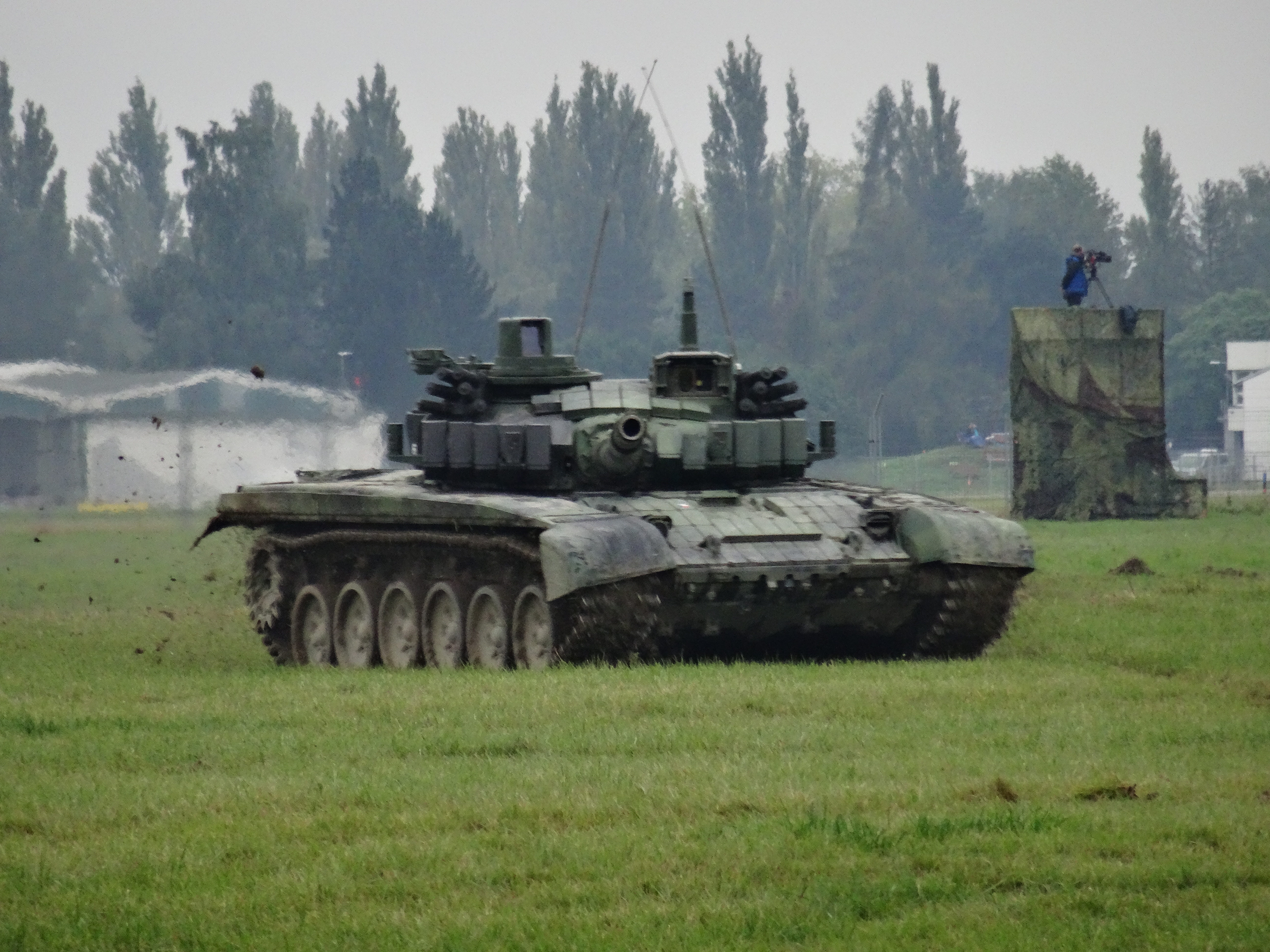 Czech T-72 at the 2017 NATO Days in Ostrava